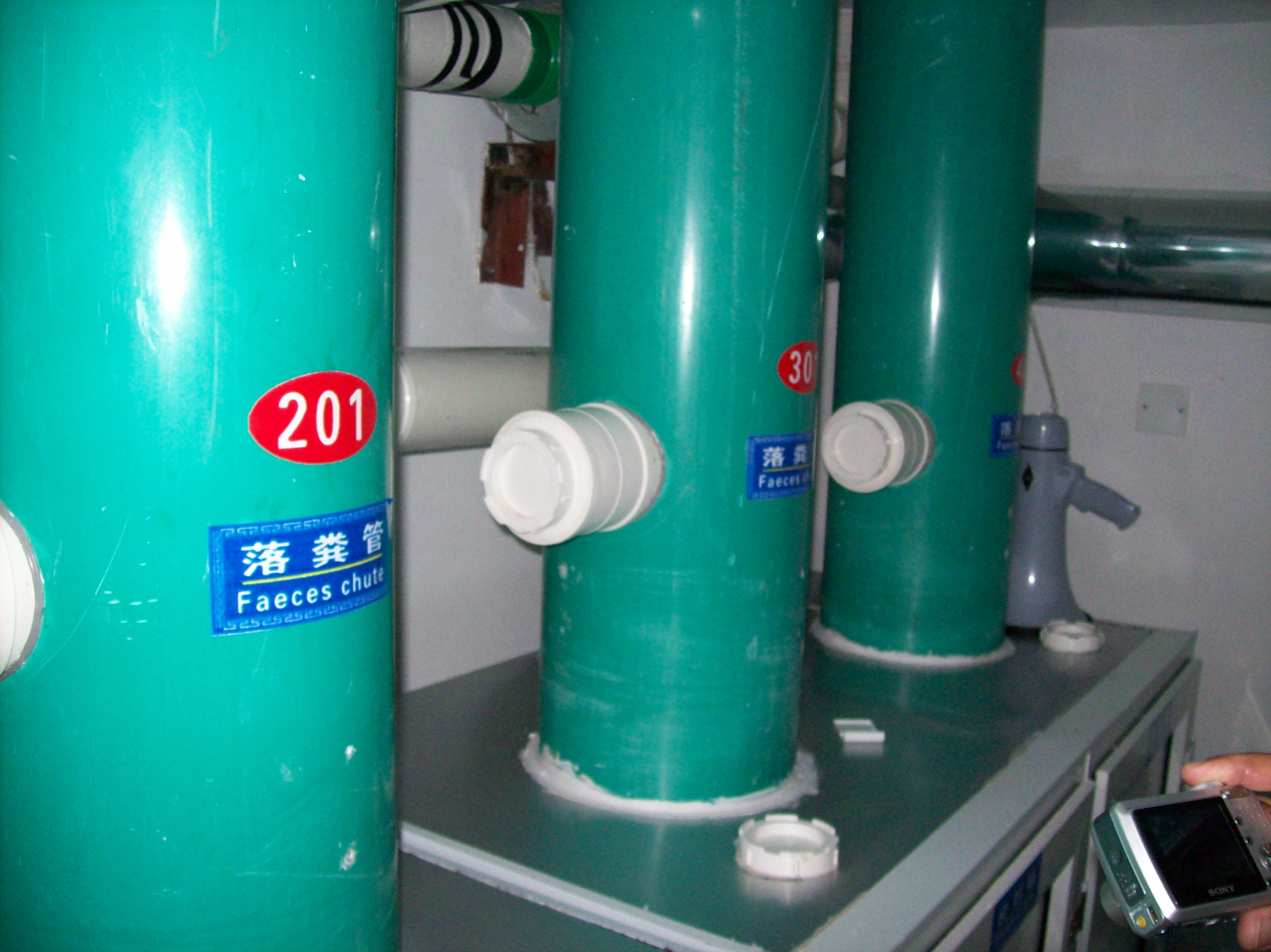 Faeces chutes into faeces bins.